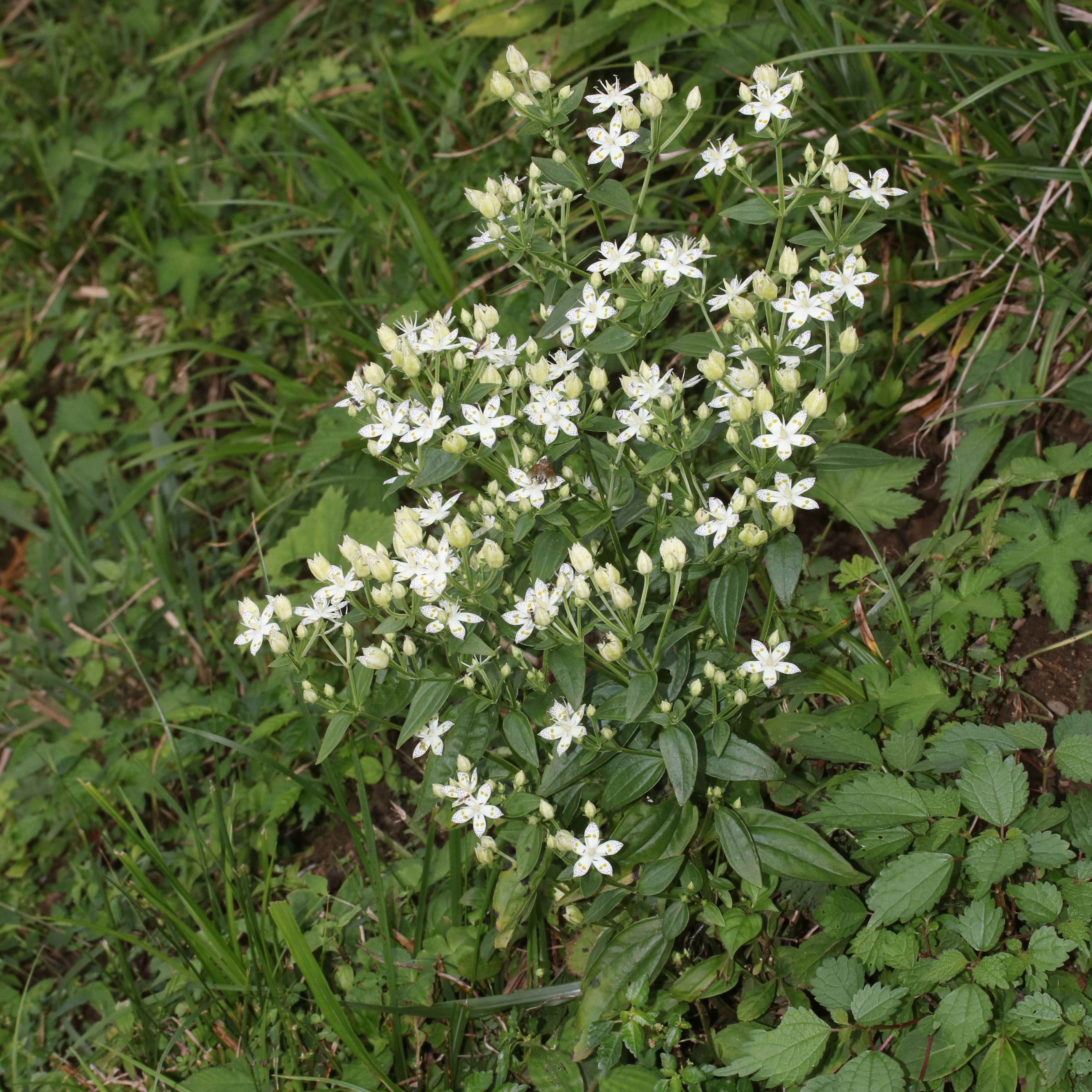 Swertia bimaculata in Mount Ibuki, Maibara, Shiga Prefecture, Japan.